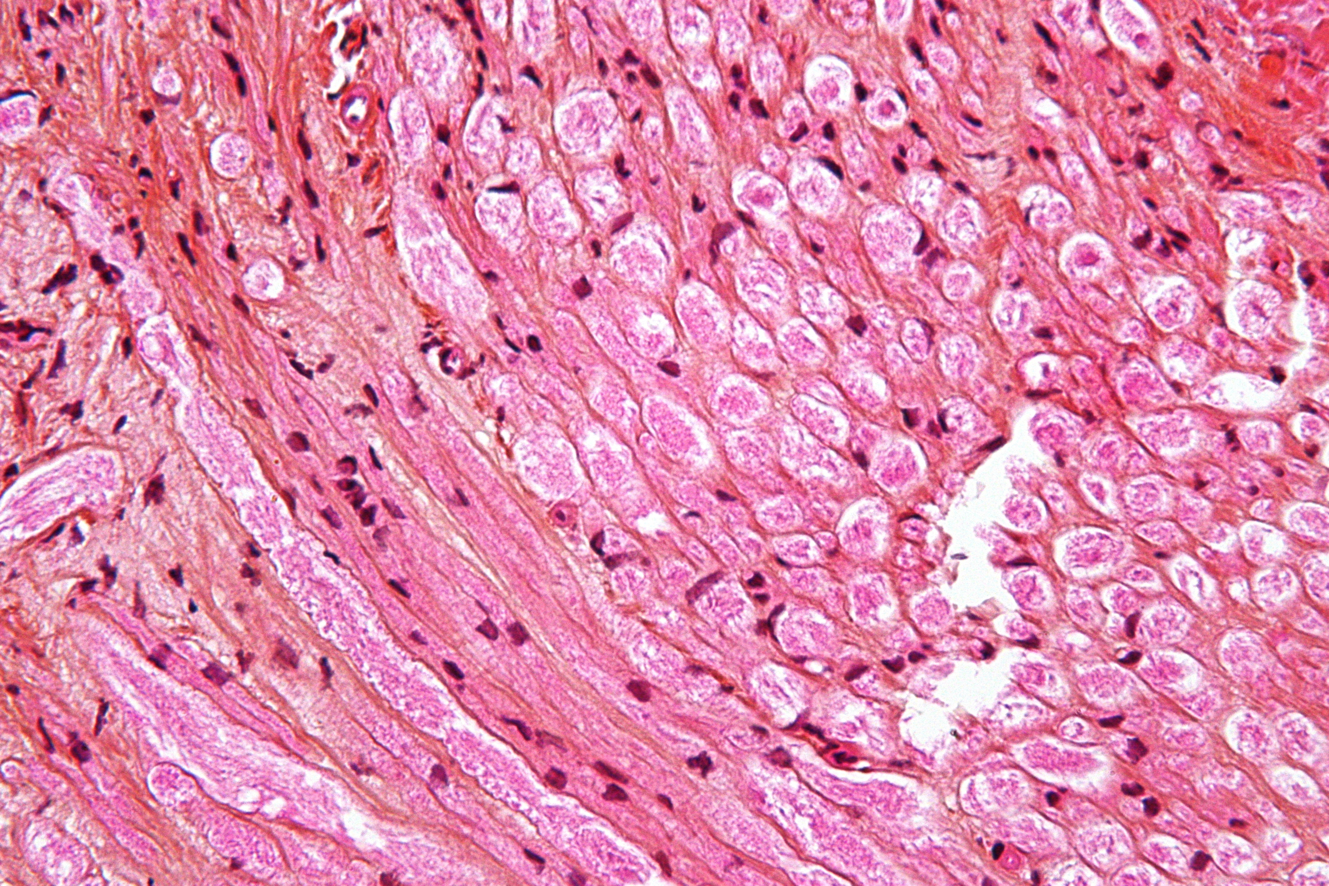 Very high magnification micrograph of a nerve root with an associated schwannoma, also known as a nerve root schwannoma. HPS stain. Related images Intermed. mag. High mag. Very high mag.